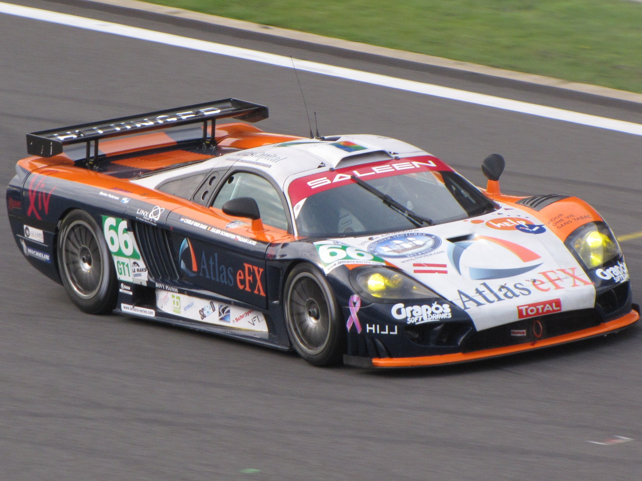 Saleen S7-R of Atlas FX-Team FS at 1000 km of Spa 2010.